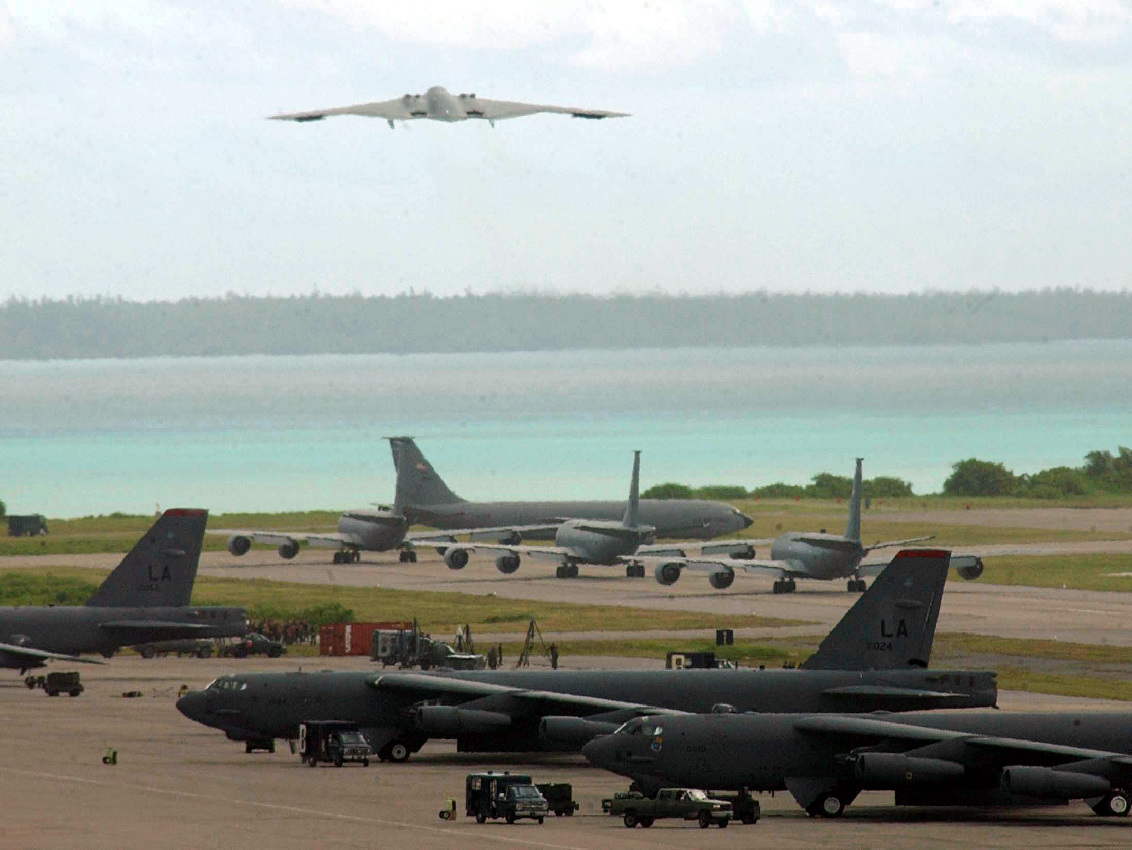 OPERATION ENDURING FREEDOM -- A B-2 Spirit takes off for an Operation Iraqi Freedom bombing mission while other aircraft from 40th Air Expeditionary Wing prepare to launch from a forward-deployed location. The B-2's "stealth" characteristics give it the ability to penetrate an enemy's most sophisticated defenses and threaten its most valued and heavily defended targets. (U.S. Air Force photo by Senior Airman Nathan G. Bevier)